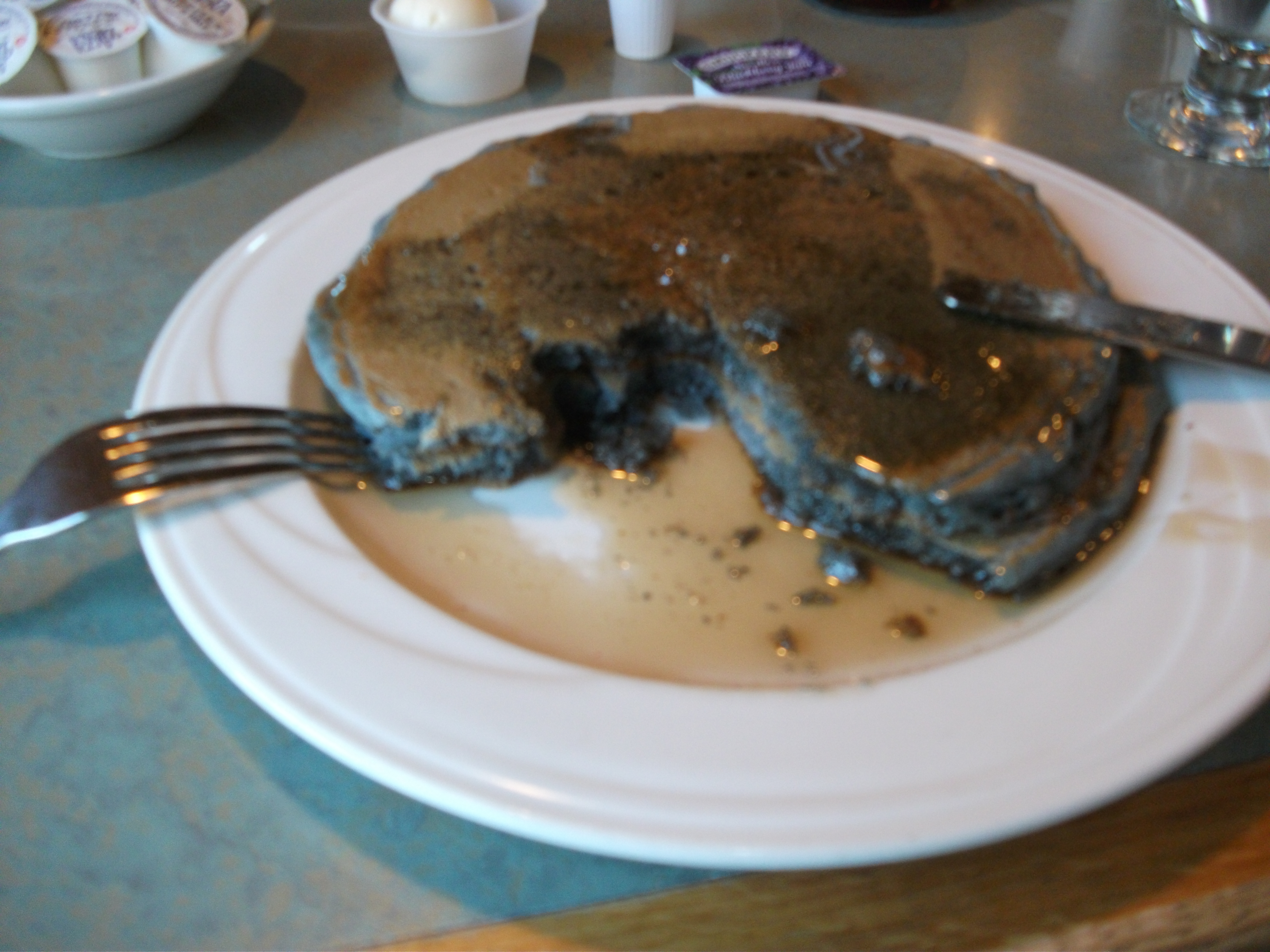 Pancakes made with Hopi Maize (blue corn)